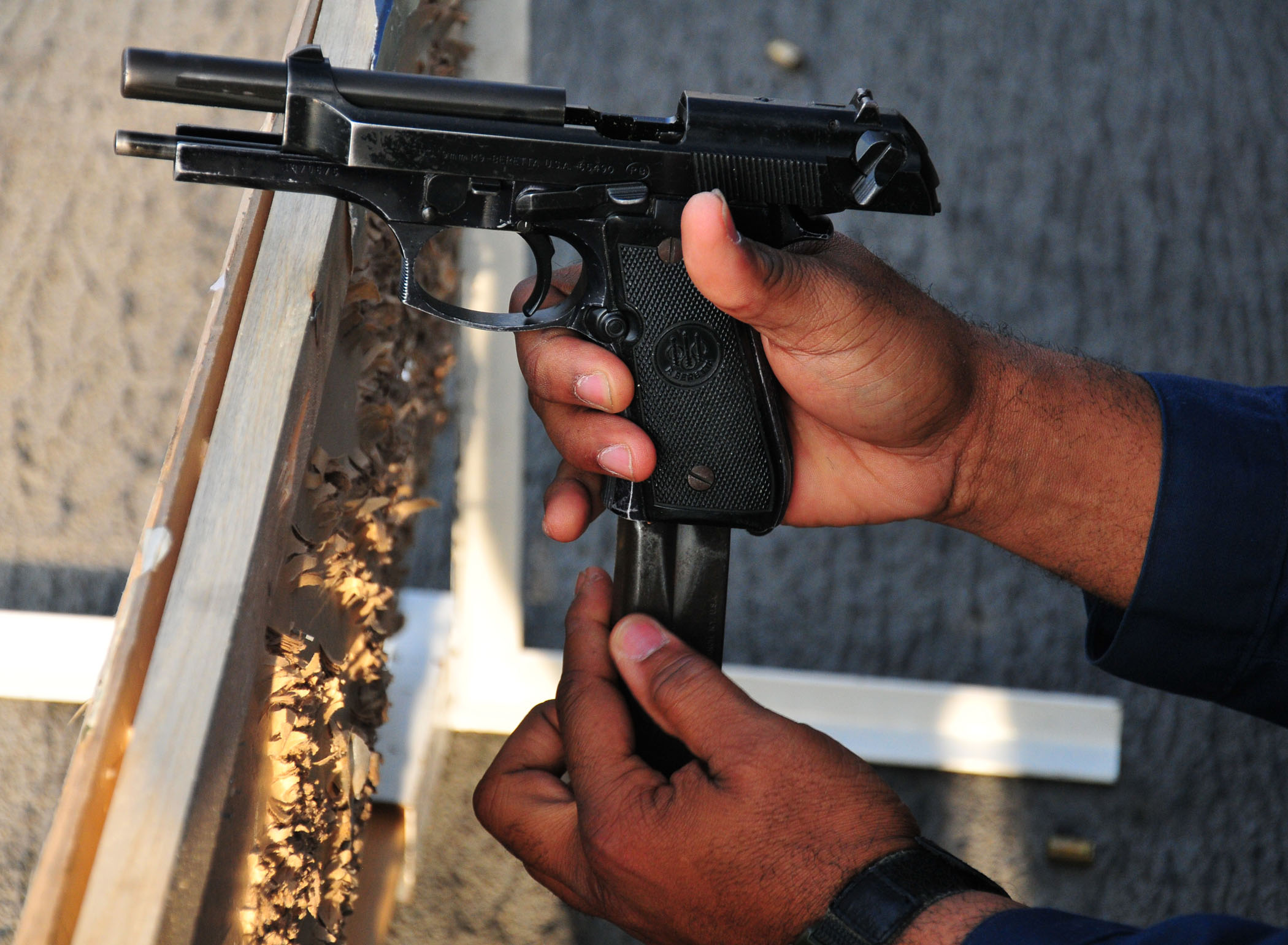 ARABIAN SEA (April 6, 2011) Logistics Specialist 2nd Class Jermaine Jackson reloads a 9mm pistol while behind cover during a small arms practical weapons qualification course aboard the amphibious assault ship USS Boxer (LHD 4). Boxer is assigned to Combined Task Force (CTF) 151, a multi-national coalition conducting counter piracy and maritime security operations in the Arabian Sea, Gulf of Aden and Somali Basin. (U.S. Navy photo by Mass Communication Specialist 3rd Class Trevor Welsh/Released)